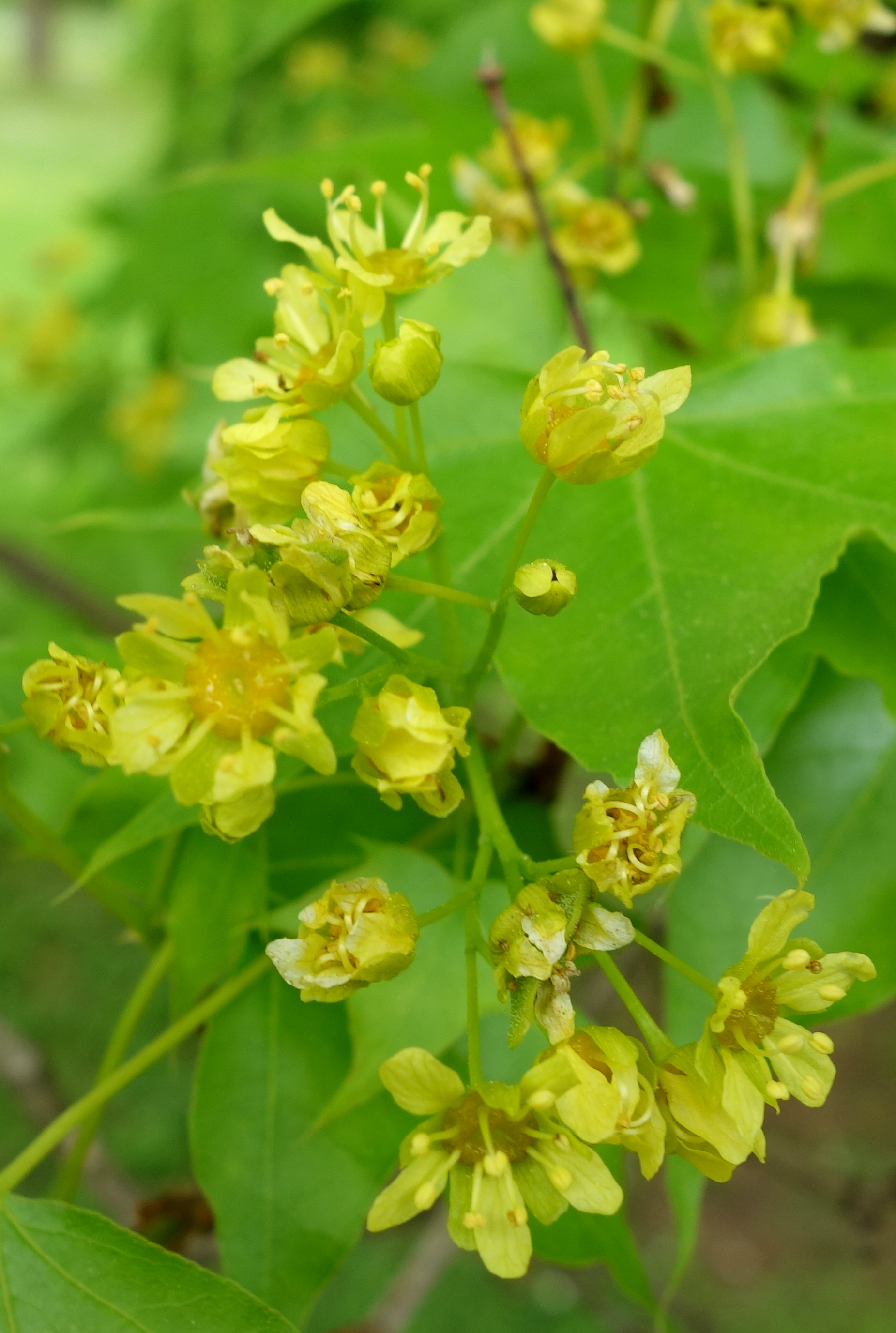 Botanical specimen in the Morris Arboretum, 100 East Northwestern Avenue, Chestnut Hill, Philadelphia, Pennsylvania, USA.